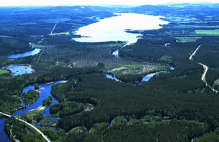 Örträsksjön in Lycksele municipality, Västerbotten county, Sweden